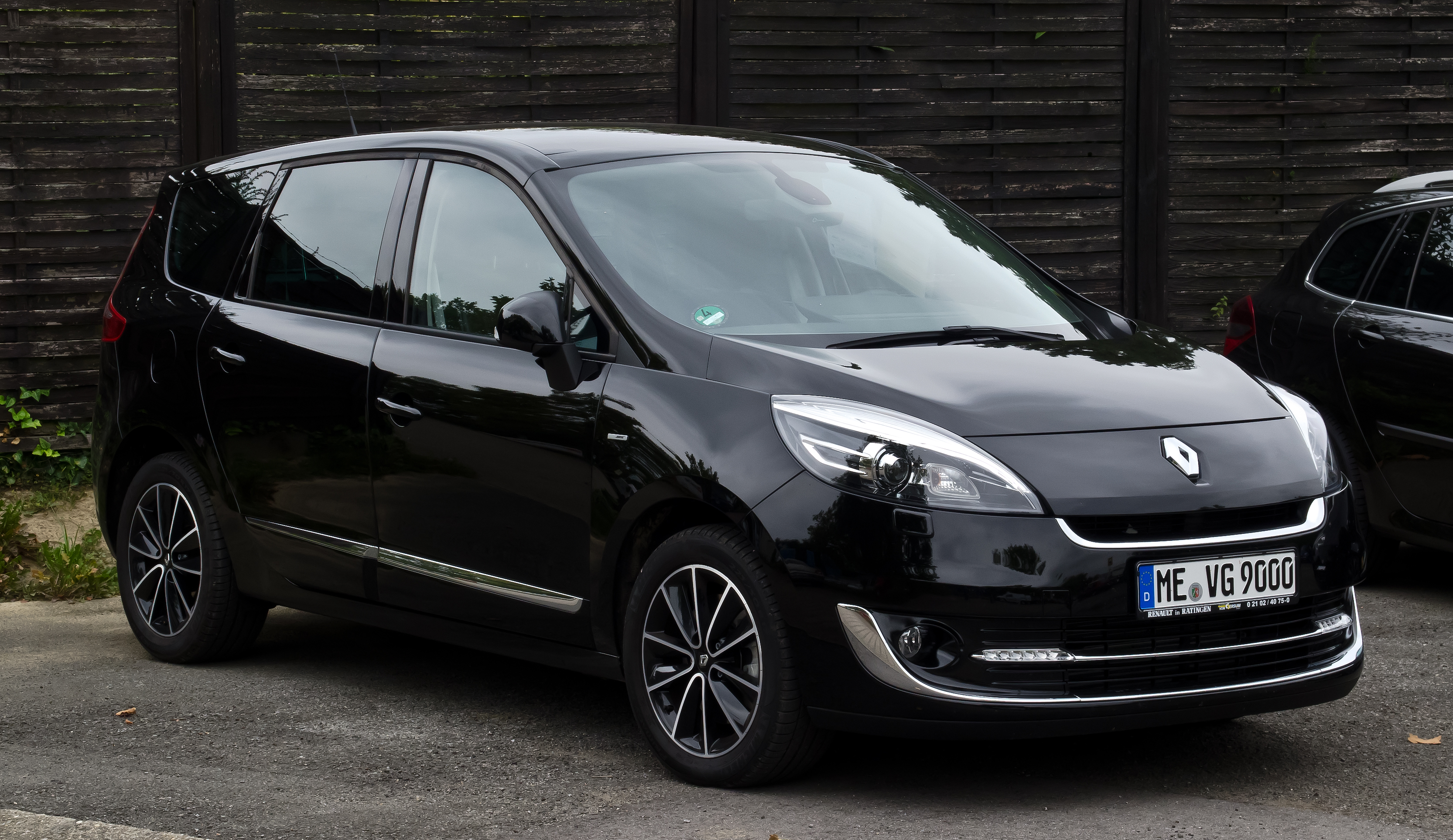 Renault Grand Scénic Bose Edition dCi 150 (III, Facelift)